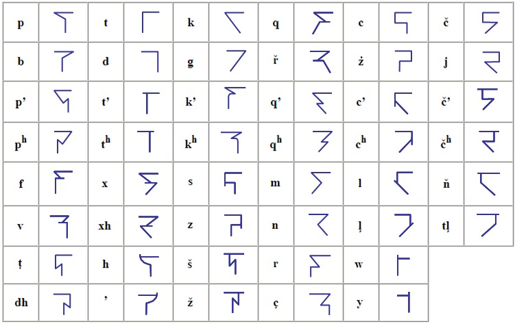 Handwritten Ithkuil consonants